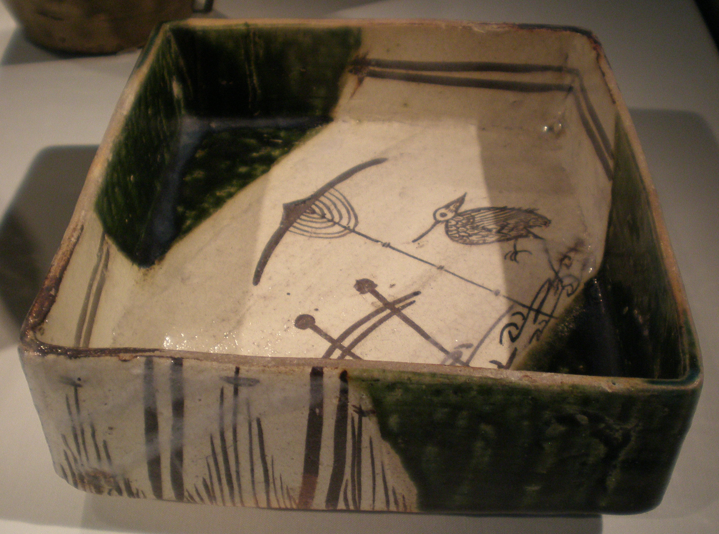 Square dish with bird design from Gifu prefecture, Ao-Oribe ware, approx. 1573-1615. On display at the Asian Art Musem of San Francisco. B67P8.